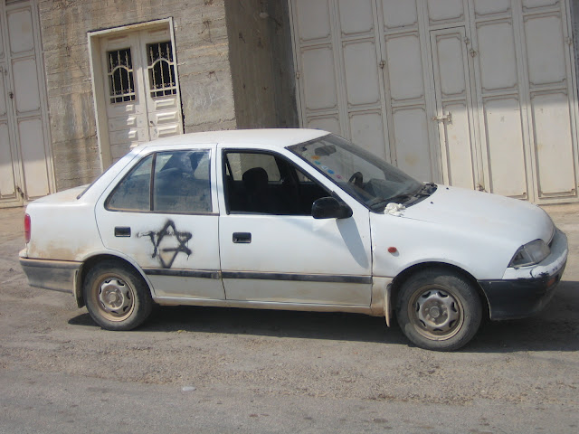 Vandalized car - "price-tag" attack by settlers, in September 2011.